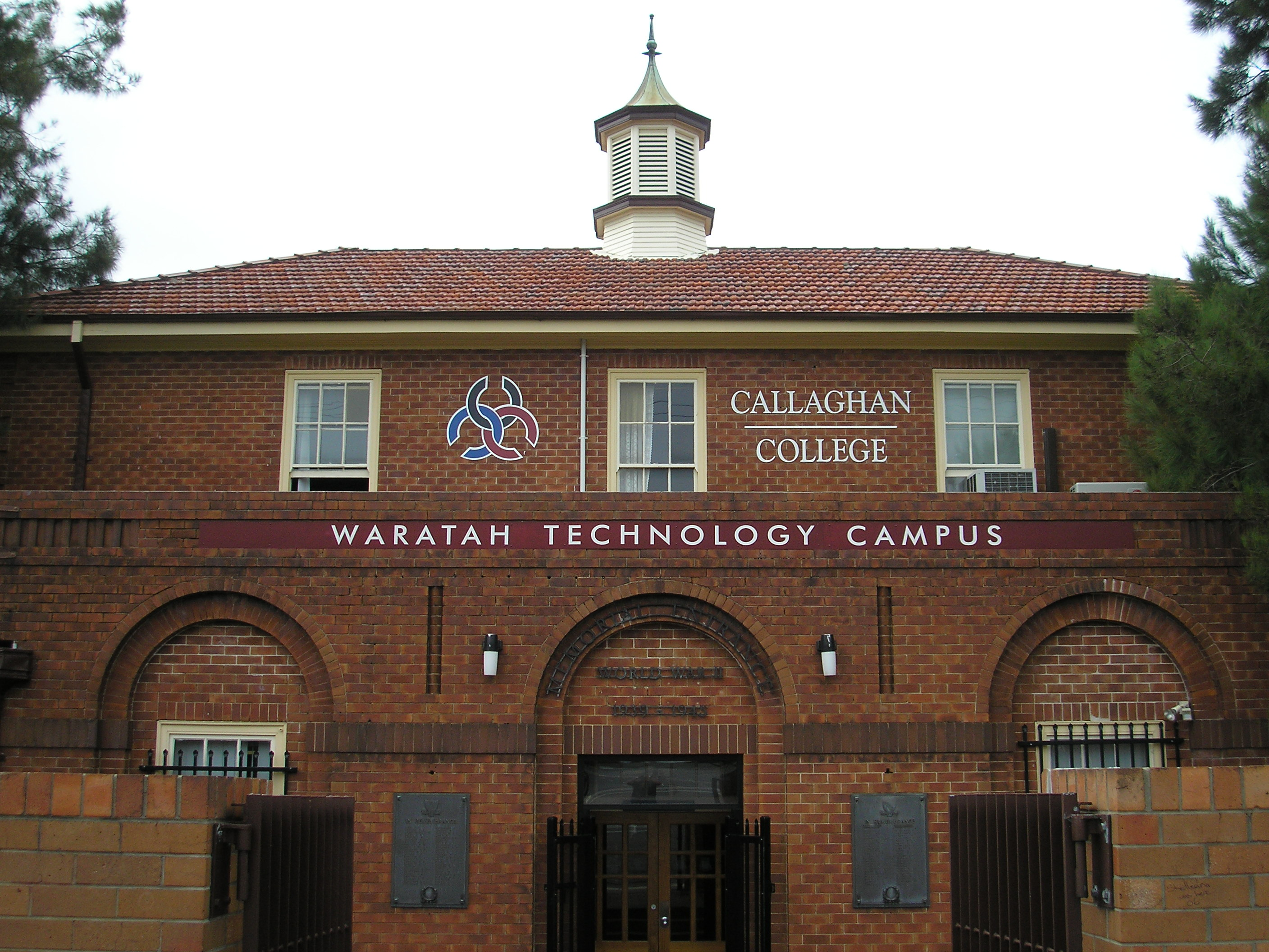 Callaghan College, Waratah Technology Campus. This used to be Waratah High School, and was once Newcastle Boys' High School.Taken 13 March 2007 by User:One Salient Oversight